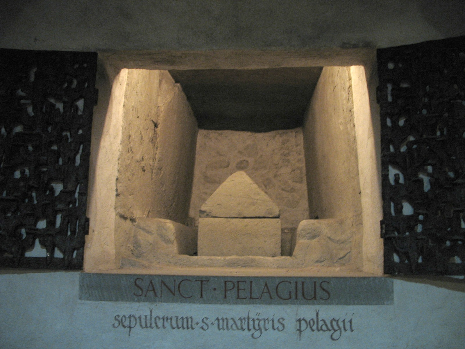 Cathedral of Konstanz. Chamber for relics in the crypt with stone reliquary (allegedly "Tomb of St. Pelagius of Constance")